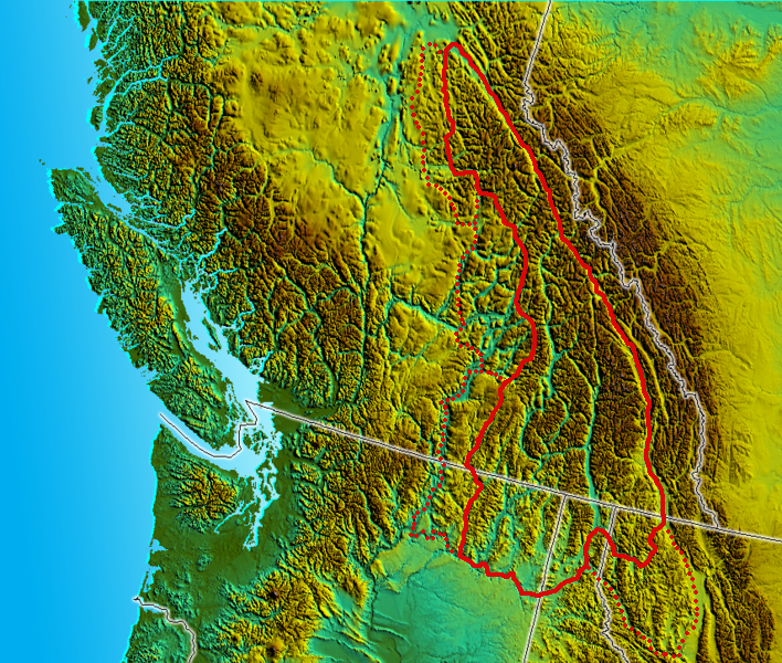 adapted from File:South BC-NW USA-relief.png already in Wikimedia Commons.